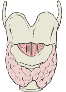 Thyroid Gland